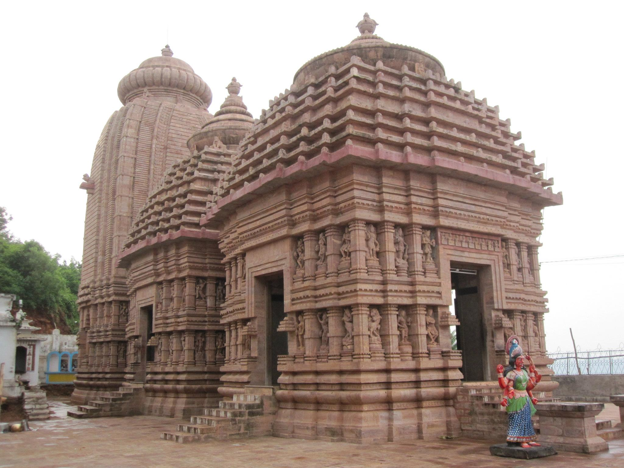 Newly renovated temple of Taratarini devi